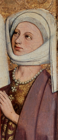 Margarita of Savoy, Palatine electress